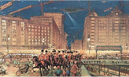 Moscow in XXIII Century. Lubianka. . Russian Empire postcard, Einem Factory, 1914, Moscow.